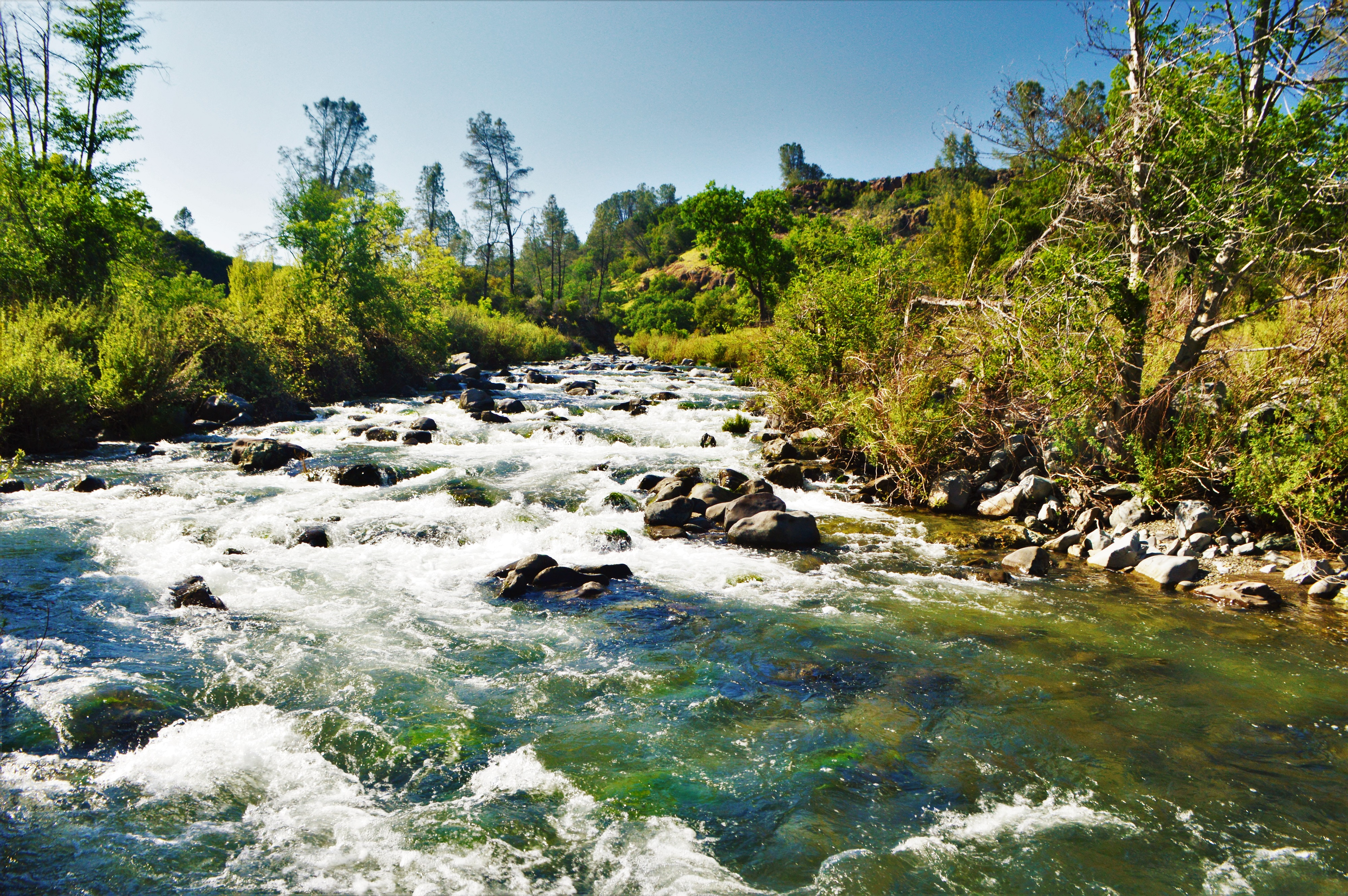 A view of Putah Creek at approximately 100cfs during late April 2018 in Northern Napa County